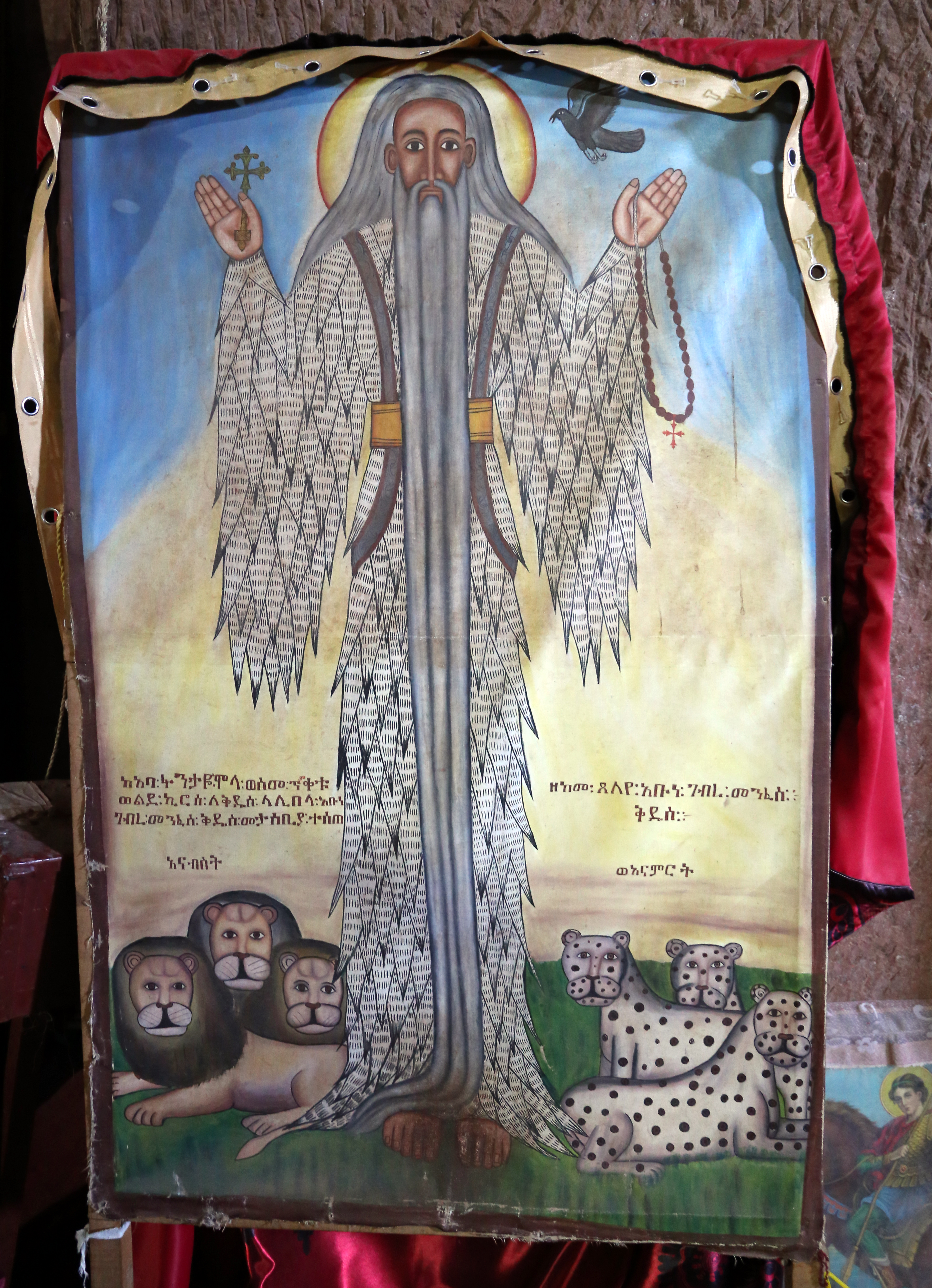 Biete Qeddus Mercoreus